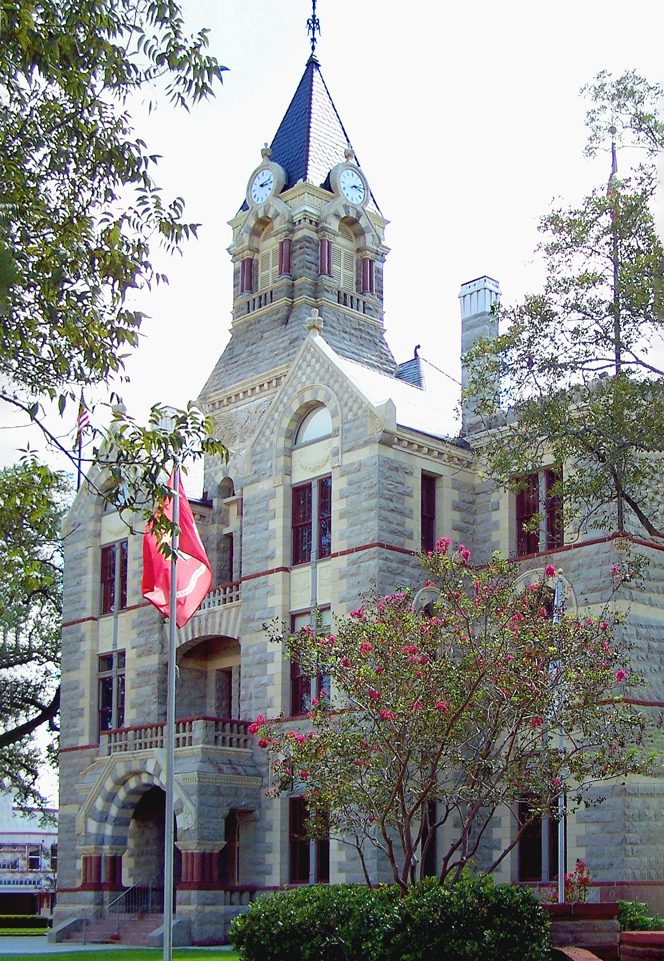 The Fayette County, Texas courthouse in La Grange, Texas, United States. When the structural integrity of Fayette County's third courthouse came into question, the County Comissioners hired San Antonio architect James Riely Gordon (1863-1937) to design a new courthouse. The Romanesque Revival style structure uses four types of native Texas stone to detail the exterior. The courthouse and jail complex was listed on the National Register of Historic Places on January 23, 1975 and were designated a Recorded Texas Historic Landmark in 2001.